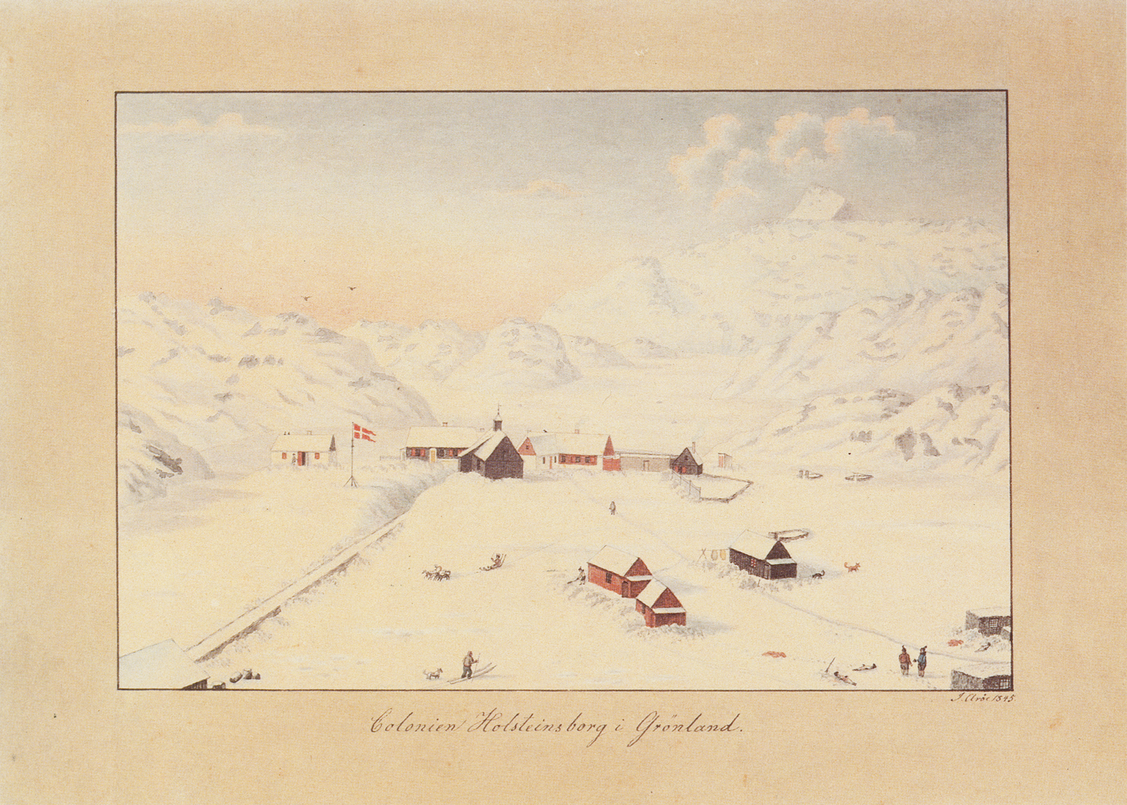 Holsteinsborg is now known as Sisimiut. Arøe left Greenland in 1839 and the later paintings were either made from older sketches or based on drawings made by people visiting or posting from Greenland.